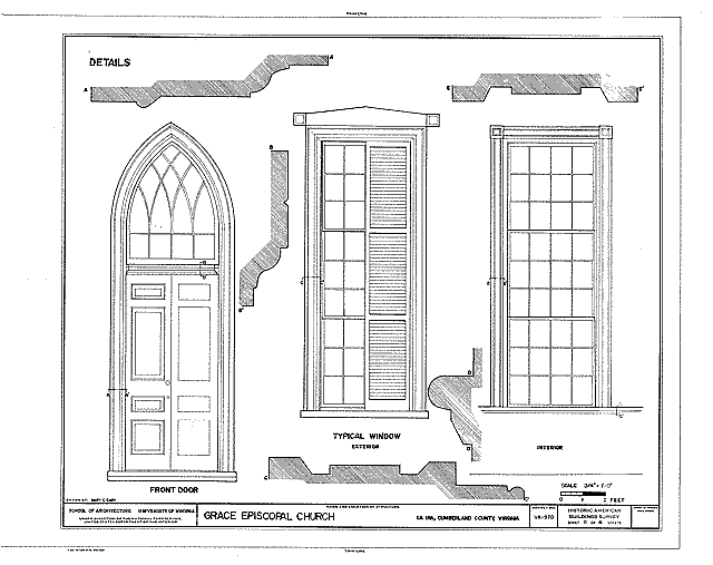 Architectural plan of Grace Church (Ca Ira, Virginia)